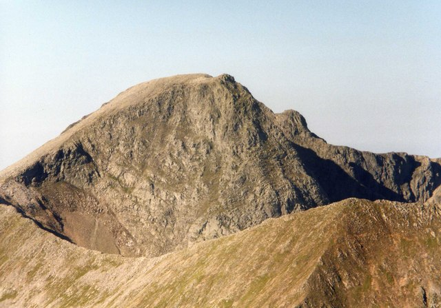 Ben Nevis From Aonach Beag showing part of the Carn Mor Dearg ridge.